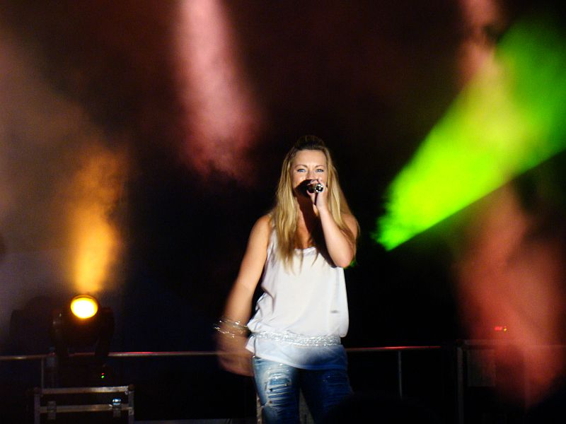 Verona